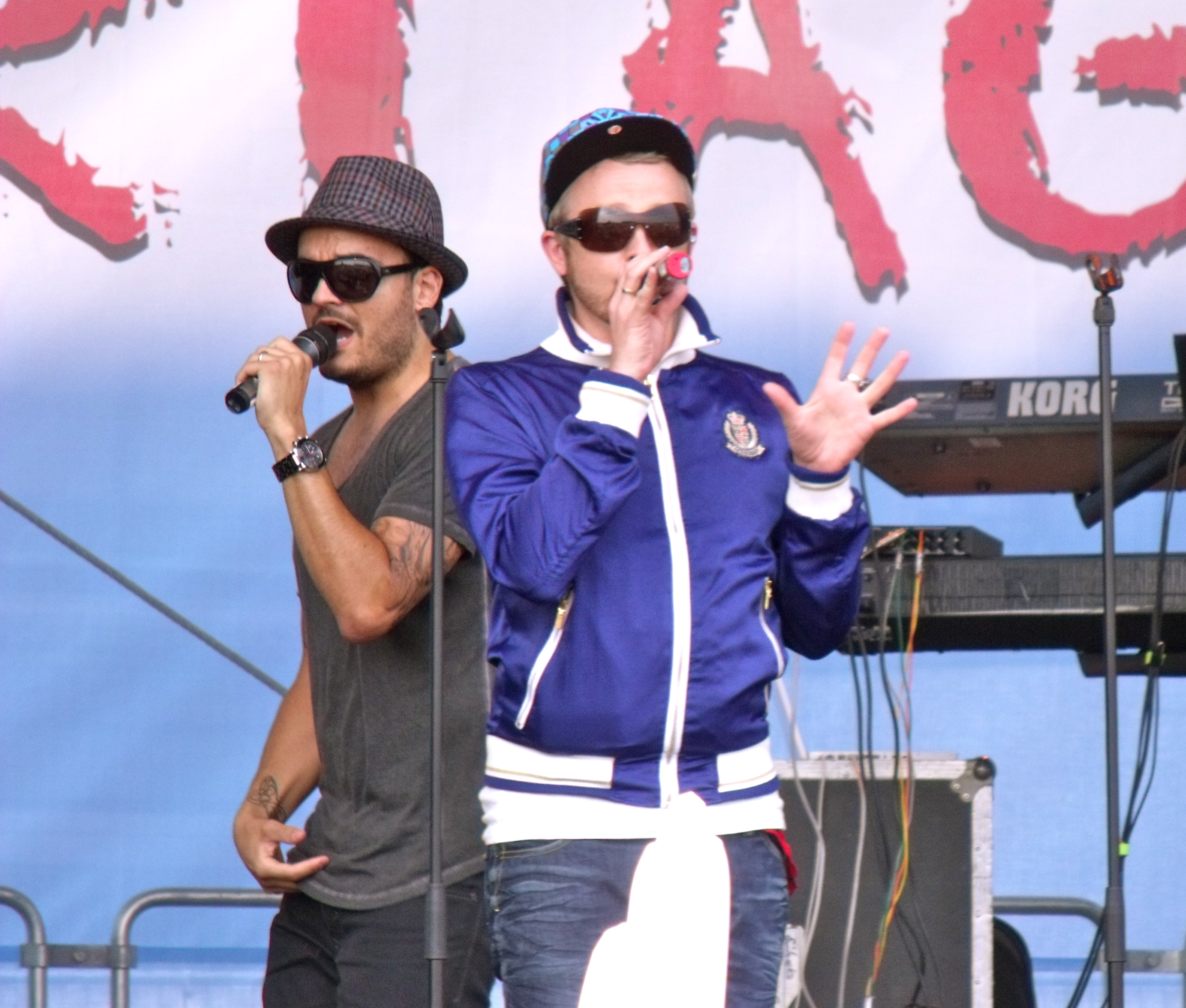 Ross Antony and Giovanni Zarrella